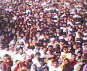 People at Final Possesion of Comrade Guru Radha Kishan [CPI] in Delhi.